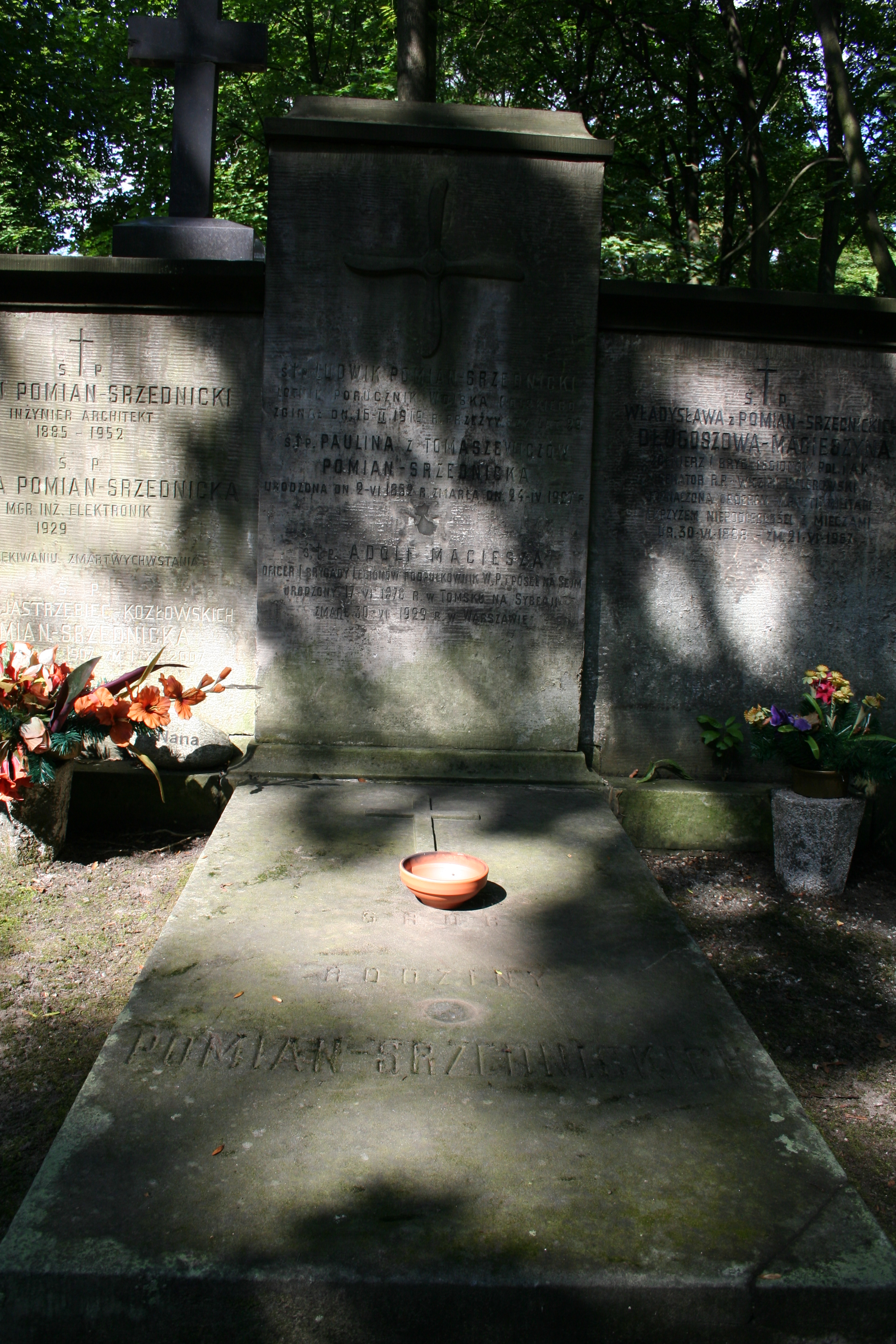 Grave of Władysława Maciesza and Adolf Maciesza at Powązki Cemetery in Warsaw, Poland